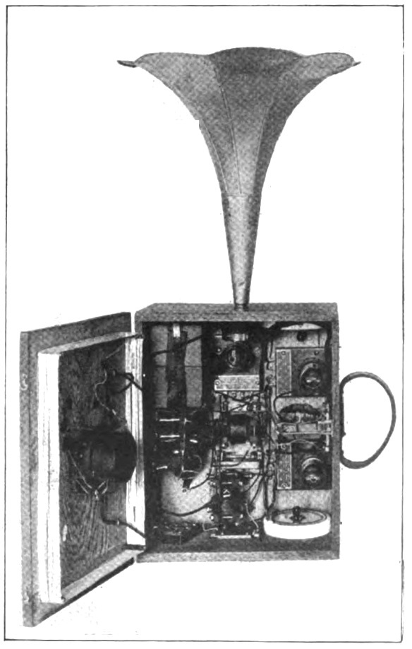 The Portaphone was a prototype radio receiver that was designed by the U.S. Bureau of Standards in Washington, D.C. Original caption: "Portaphone with case open to show the loop antenna and detecting and amplifying apparatus."